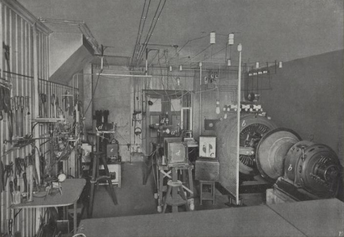 Discharge tube with terrella, generators and other equipment in Kristian Birkelands nordic light laboratory. From the book, The Norwegian Aurora Polaris Expedition 1902-1903, Volume 1: On the Cause of Magnetic Storms and The Origin of Terrestrial Magnetism, Section 2. Chapter VI: p.152